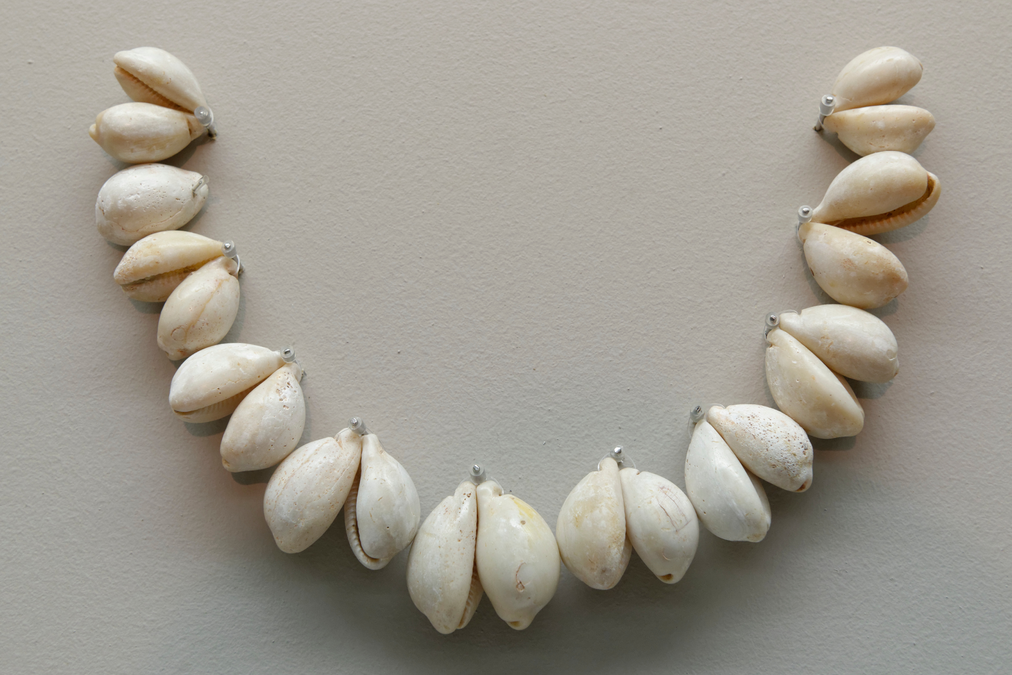 Perforated sea snail (Cypraea) shells, found on the upper level of the Abric Romaní rock shelter (Capellades, Anoia).